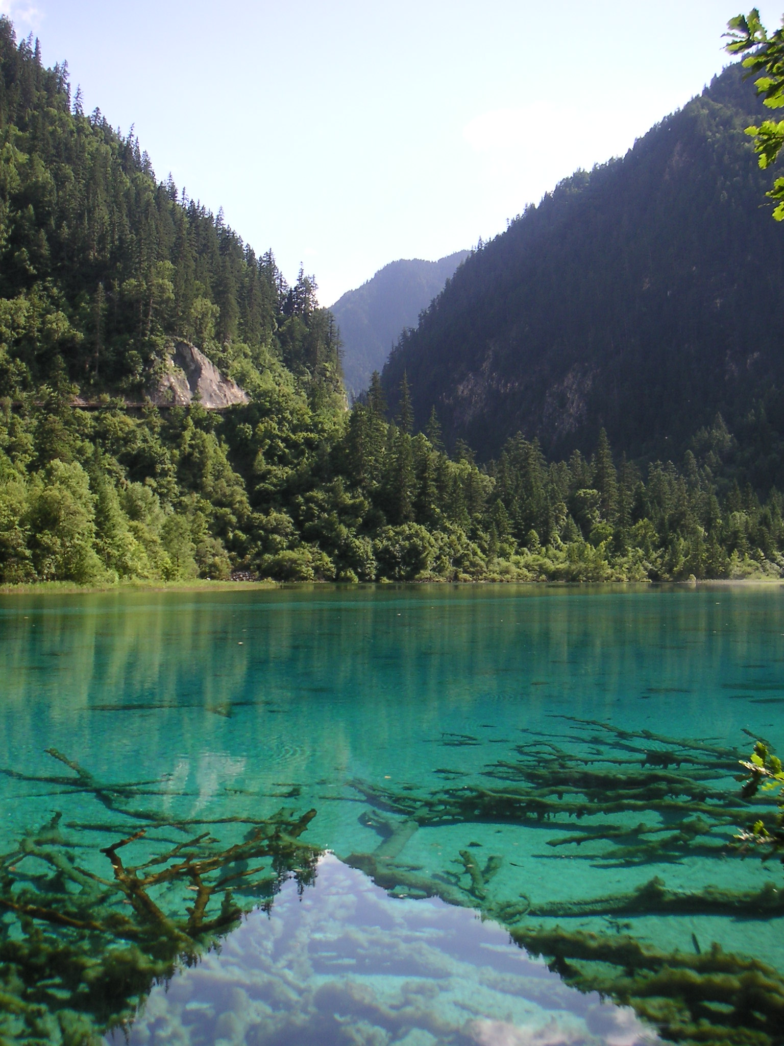 Colorful Lake in the World Nature Heritage Park Jiuzhaiguo, Sichuan-China.